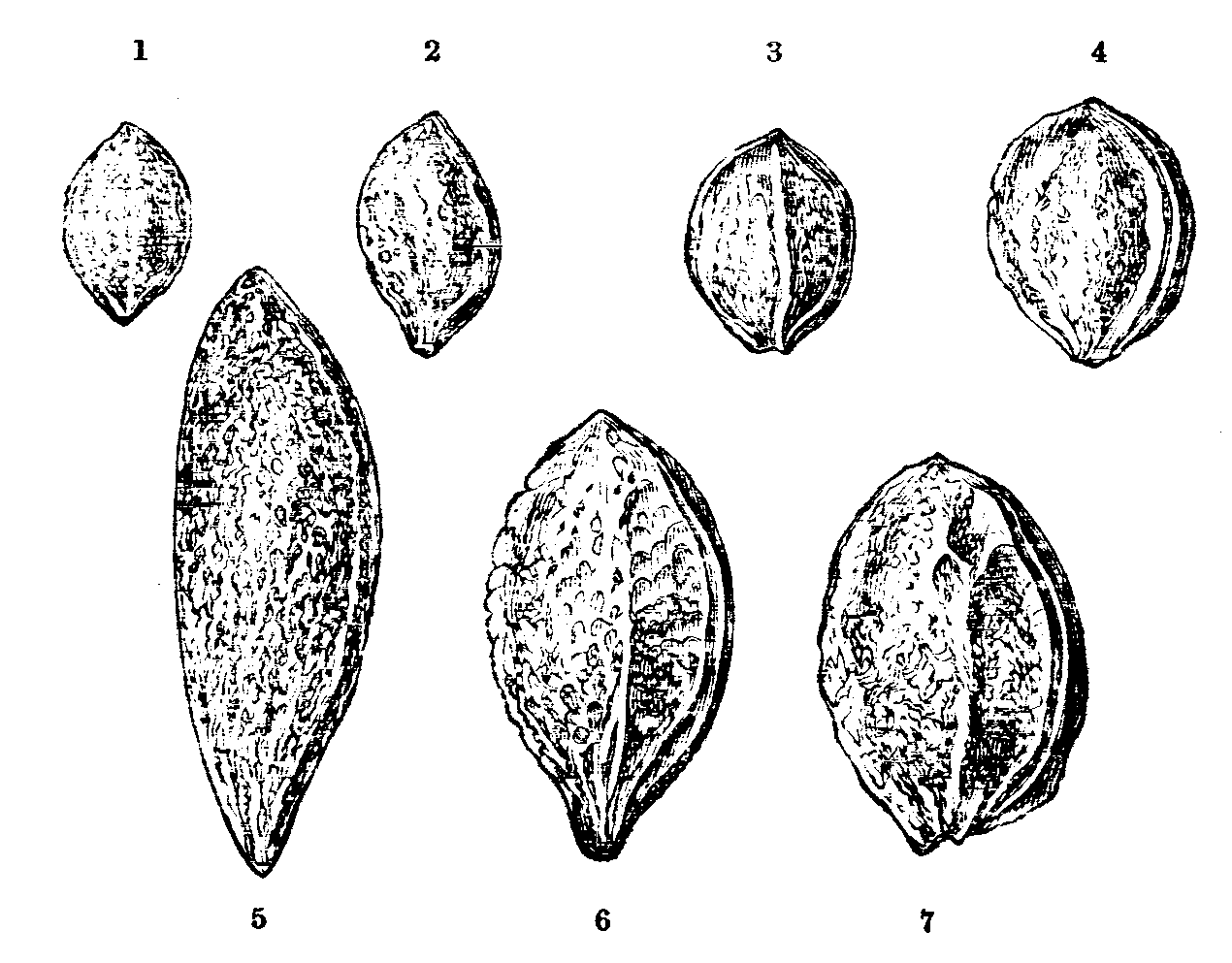 Plum Stones viewed laterally. 1. Bullace Plum. 2. Shropshire Damson. 3. Blue Gage. 4. Orleans. 5. Elvas. 6. Denyer's Victoria. 7. Diamond.